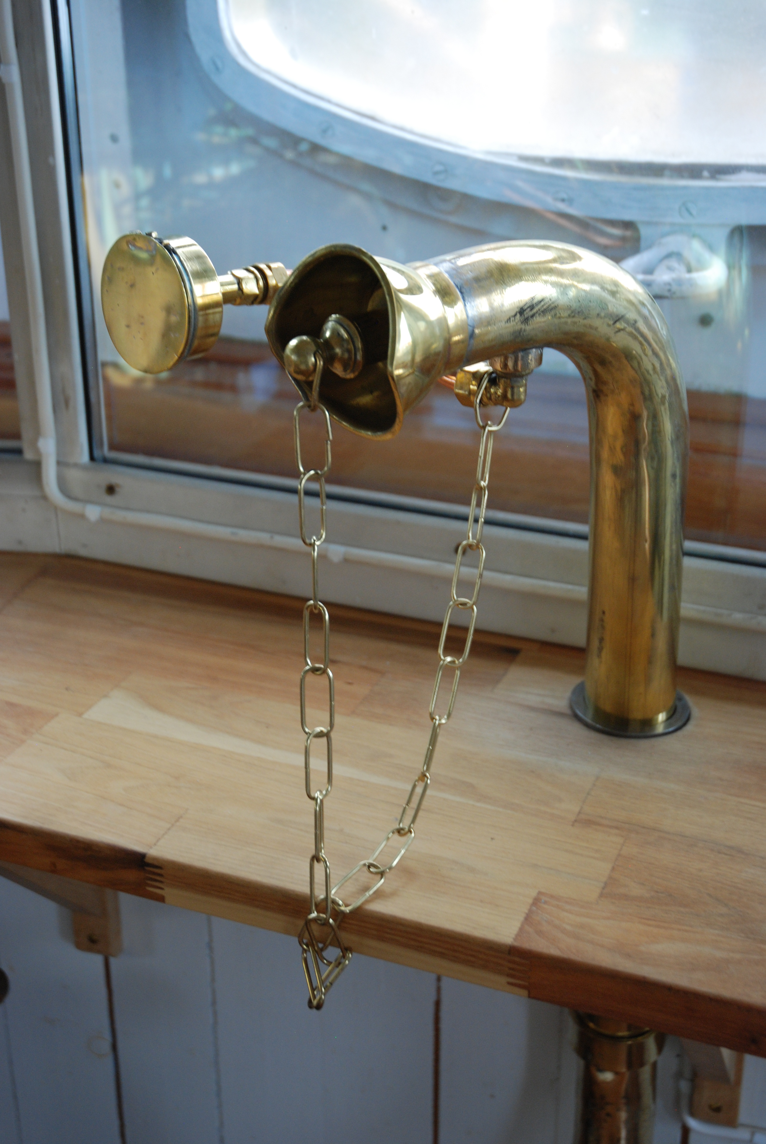 voice pipe on the bridge of SS Orion